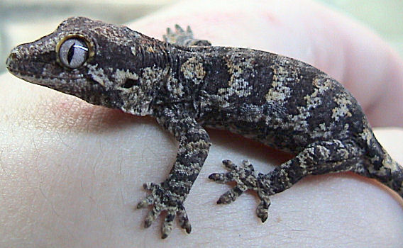 Gargoyle Gecko, Rhacodactylus auriculatus.